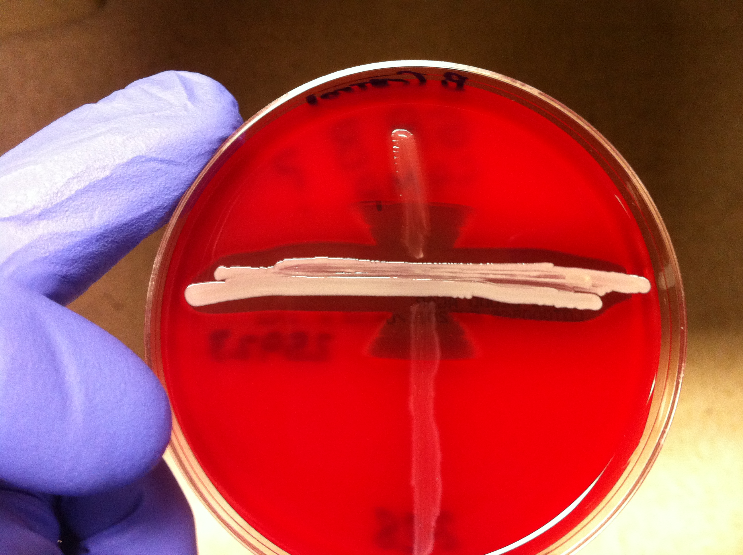 An example of a positive cAMP test proving that group B Streptococcus species (Streptococcus agalactiae) is present. The arrowhead formation on the Blood agarose gel, BAP (5% sheep blood) indicates that this bacteria is Streptococcus agalactiae (group B Strep), also abbreviated as GBS.